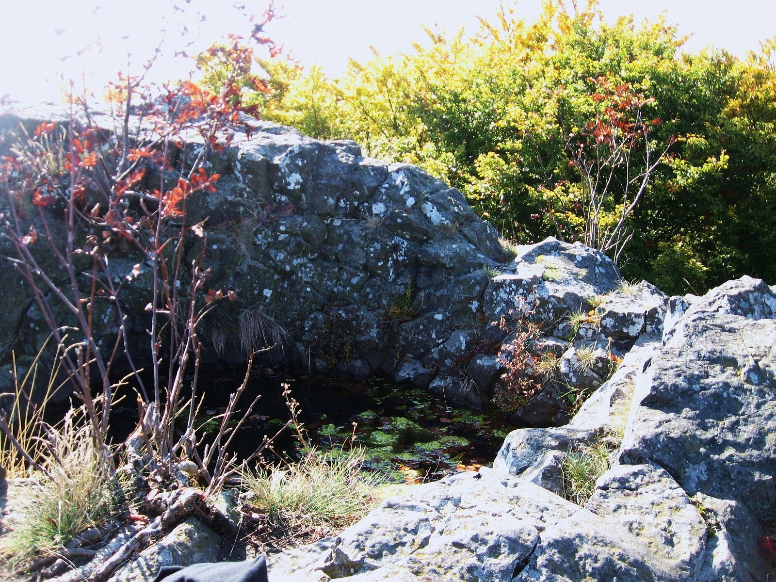 Germany / North / Hesse: mountain "Hohlestein" near Kassel